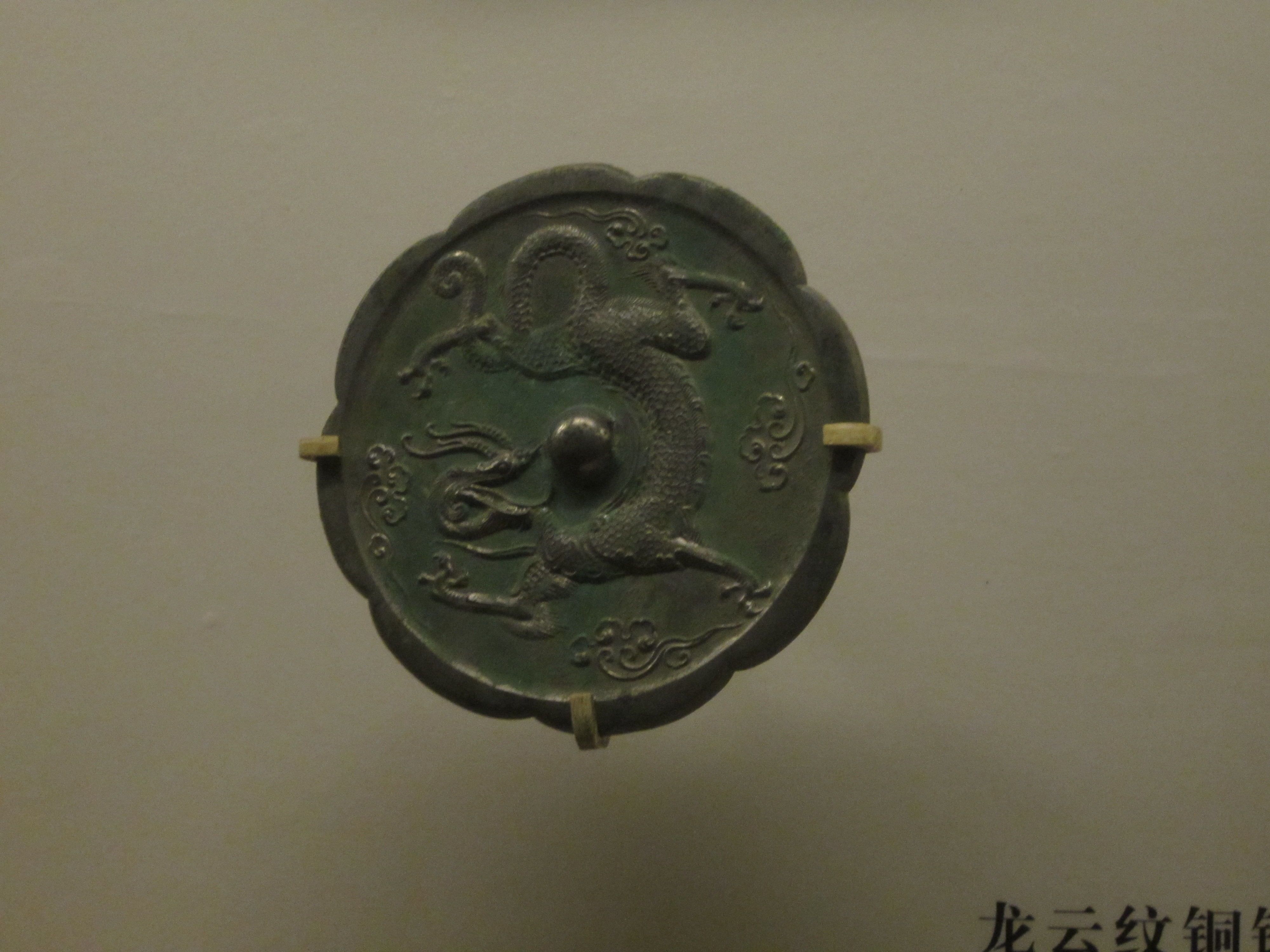 The back of a Tang Dynasty mirror in Shaanxi History Museum.